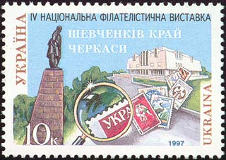 Stamp of Ukraine